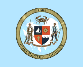 Flag of Dochester County, Maryland